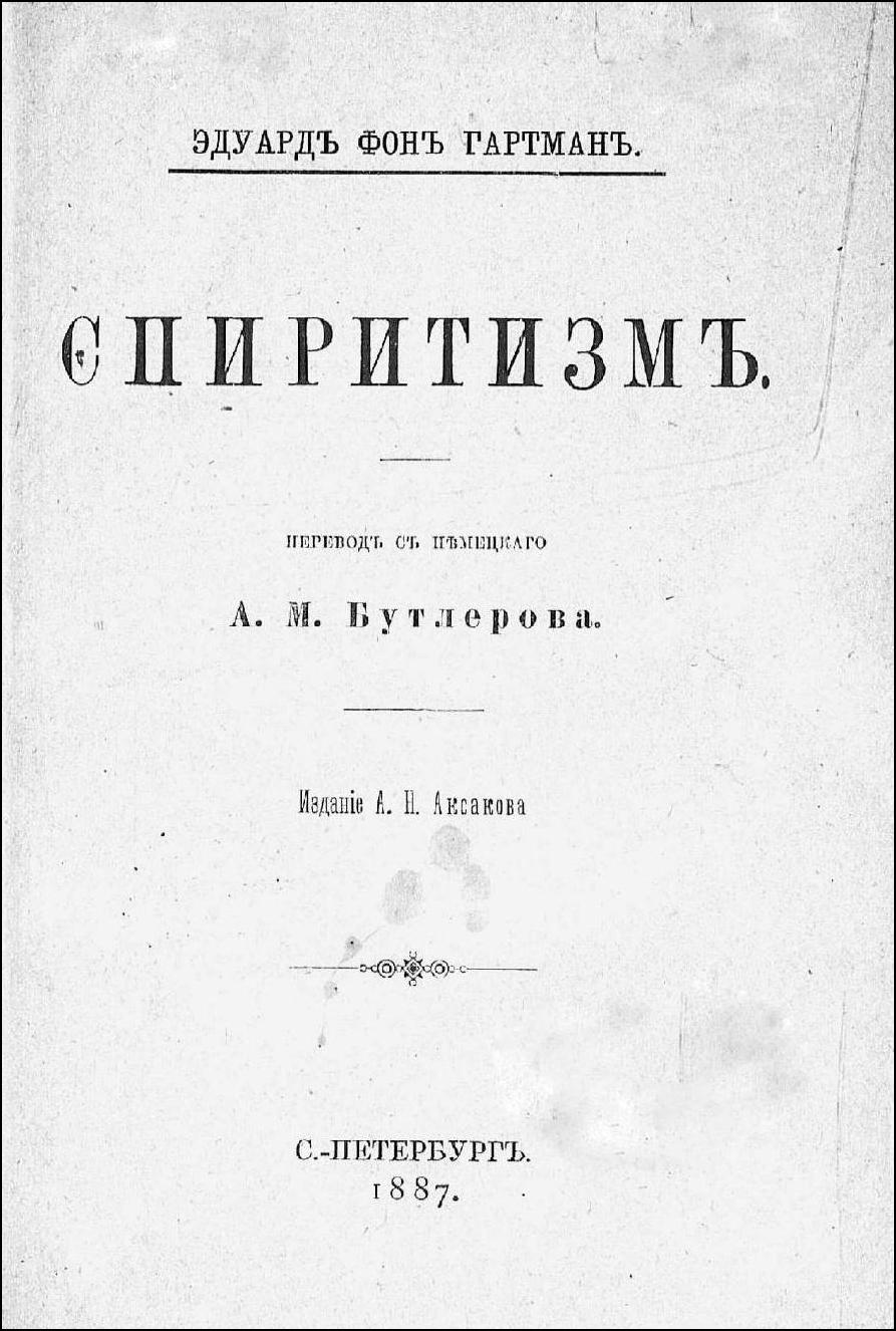 Eduard von Hartmann's book Der Spiritismus. Title page of the Russian edition.